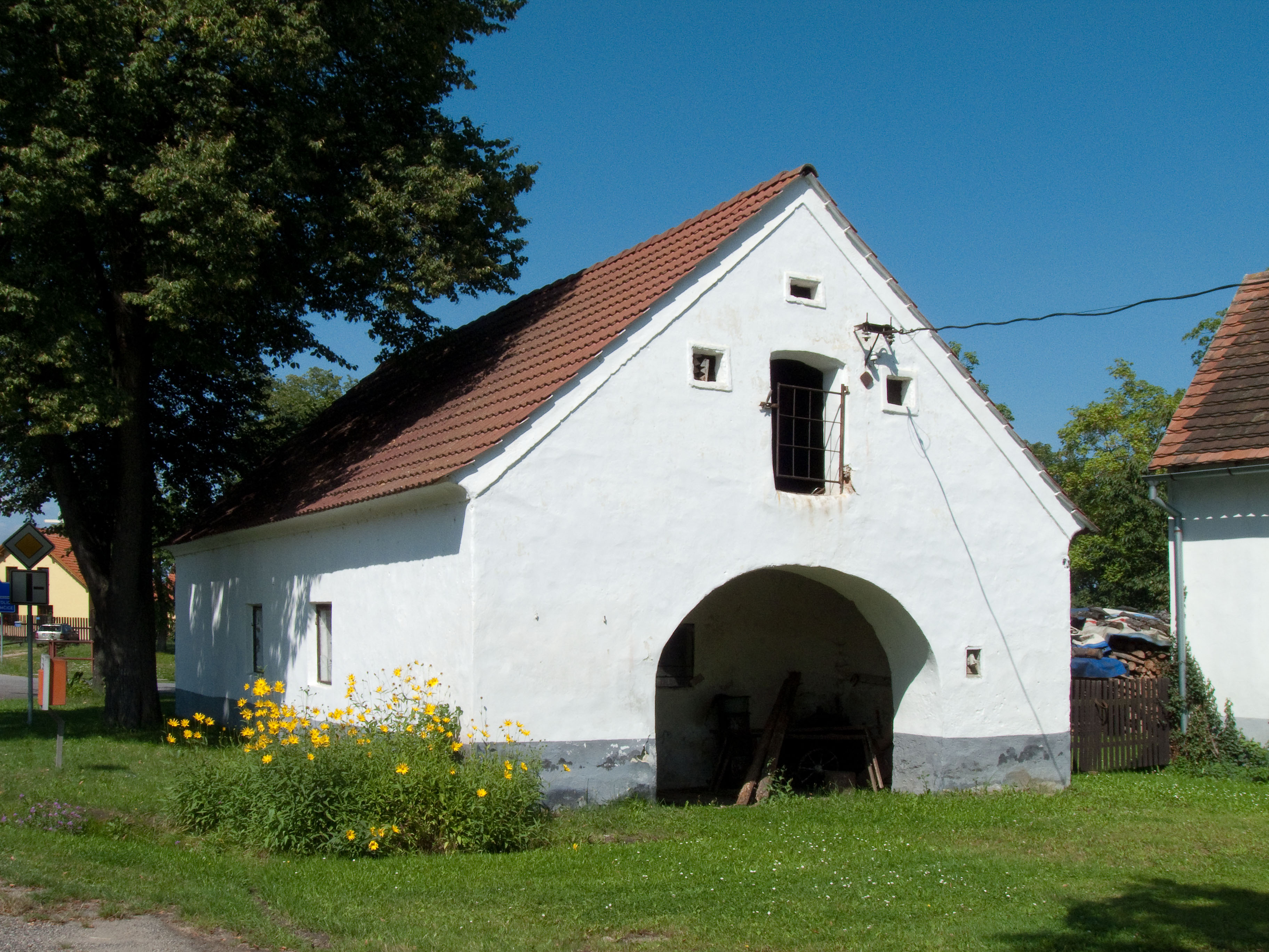 Former smithy in Břehov, České Budějovice district,Czech Republic